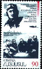 Armenia stamp, pilot Nelson Stepanyan, 1998.